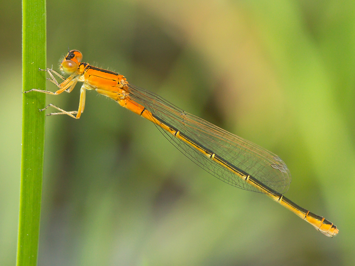 Immature female of Scarce Blue-tailed Damselfly, Ischnura pumilio. Location: North-eastern Lower Saxony, Germany.